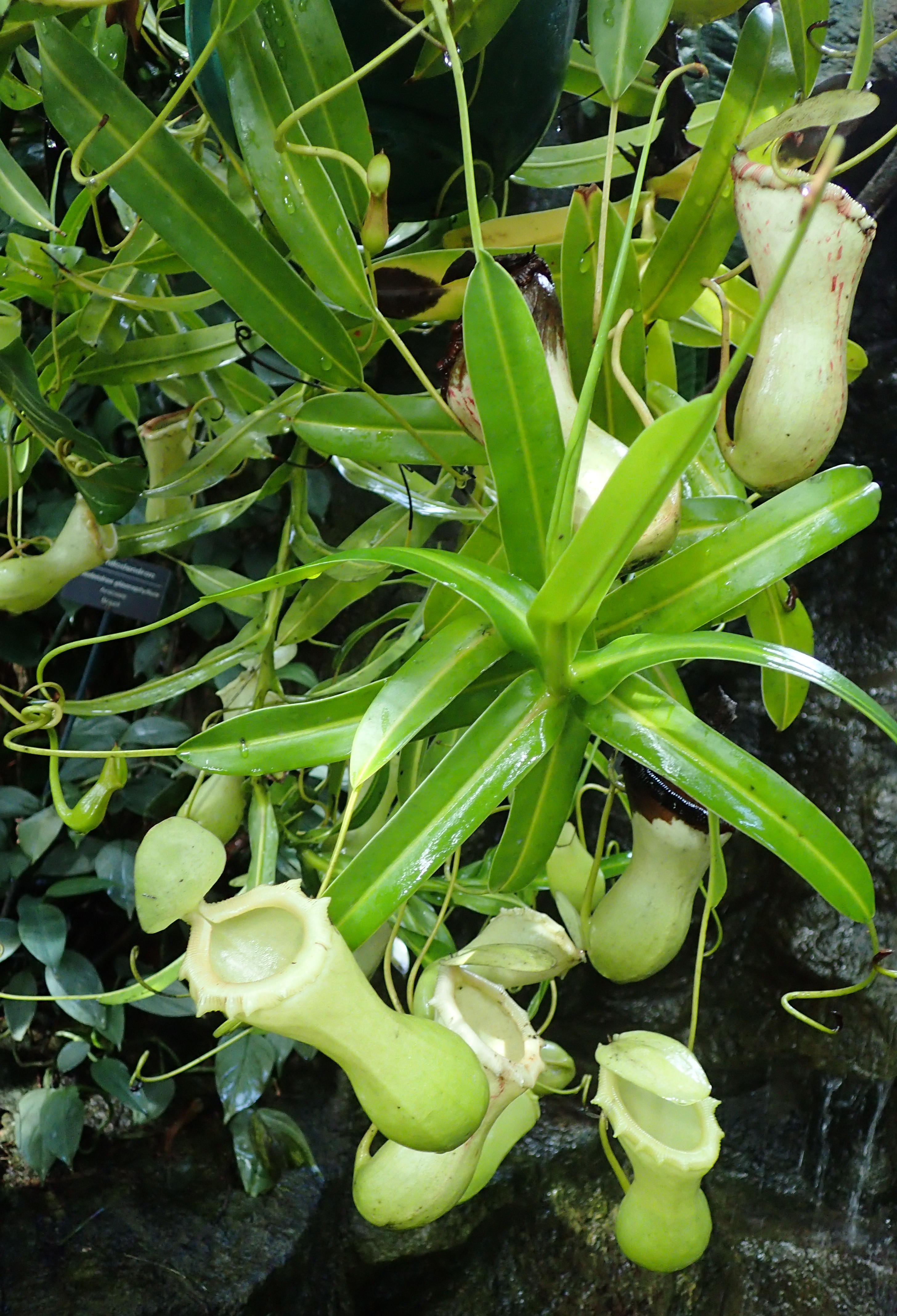 Nepenthes burkei in Boltz Conservatory, Madison, Wi